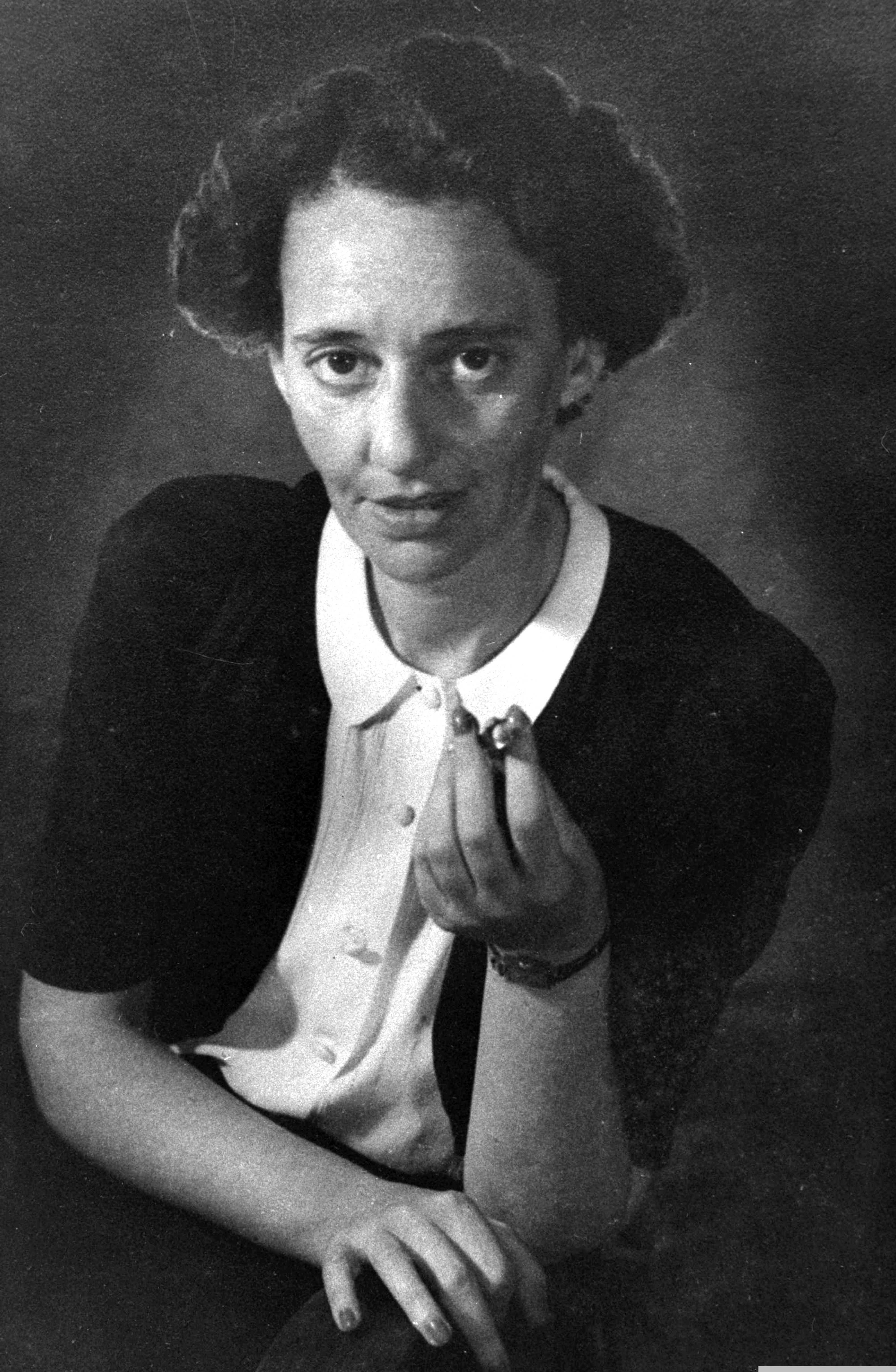 A portrait of national poetess Lea Goldberg.